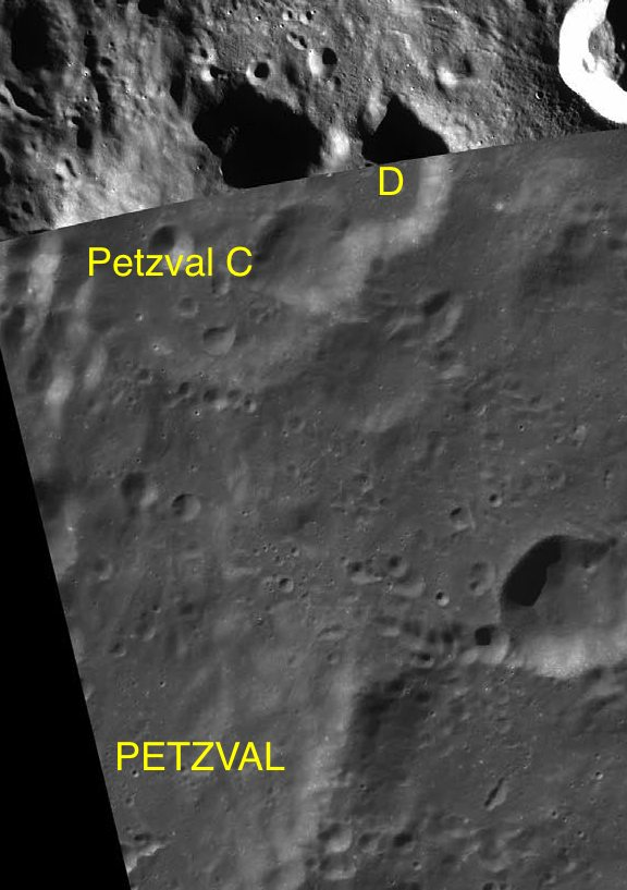 Part of the chart LAC-135 used for the presentation